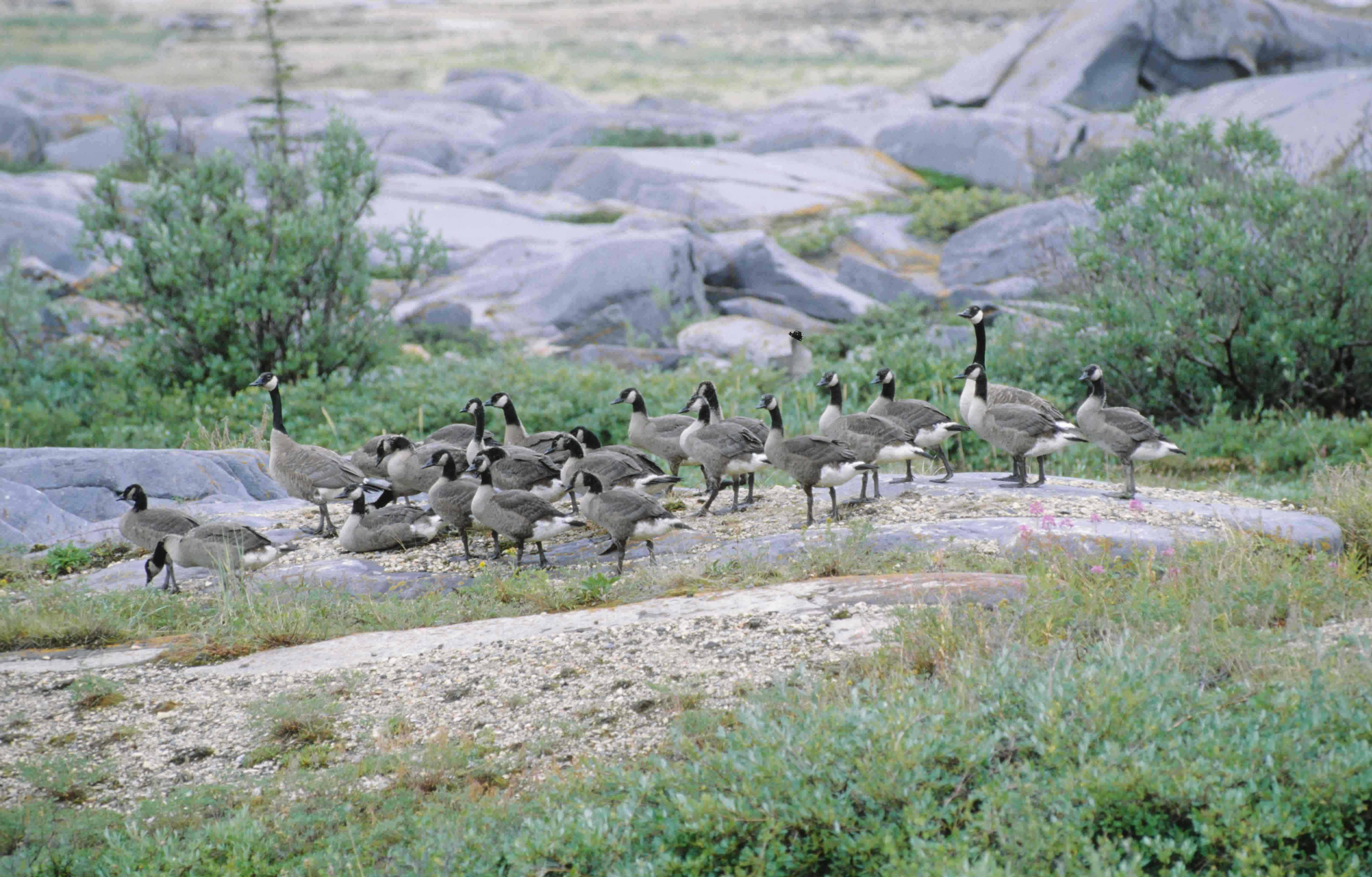 Canada Geese near Churchill, Manitoba, Canada